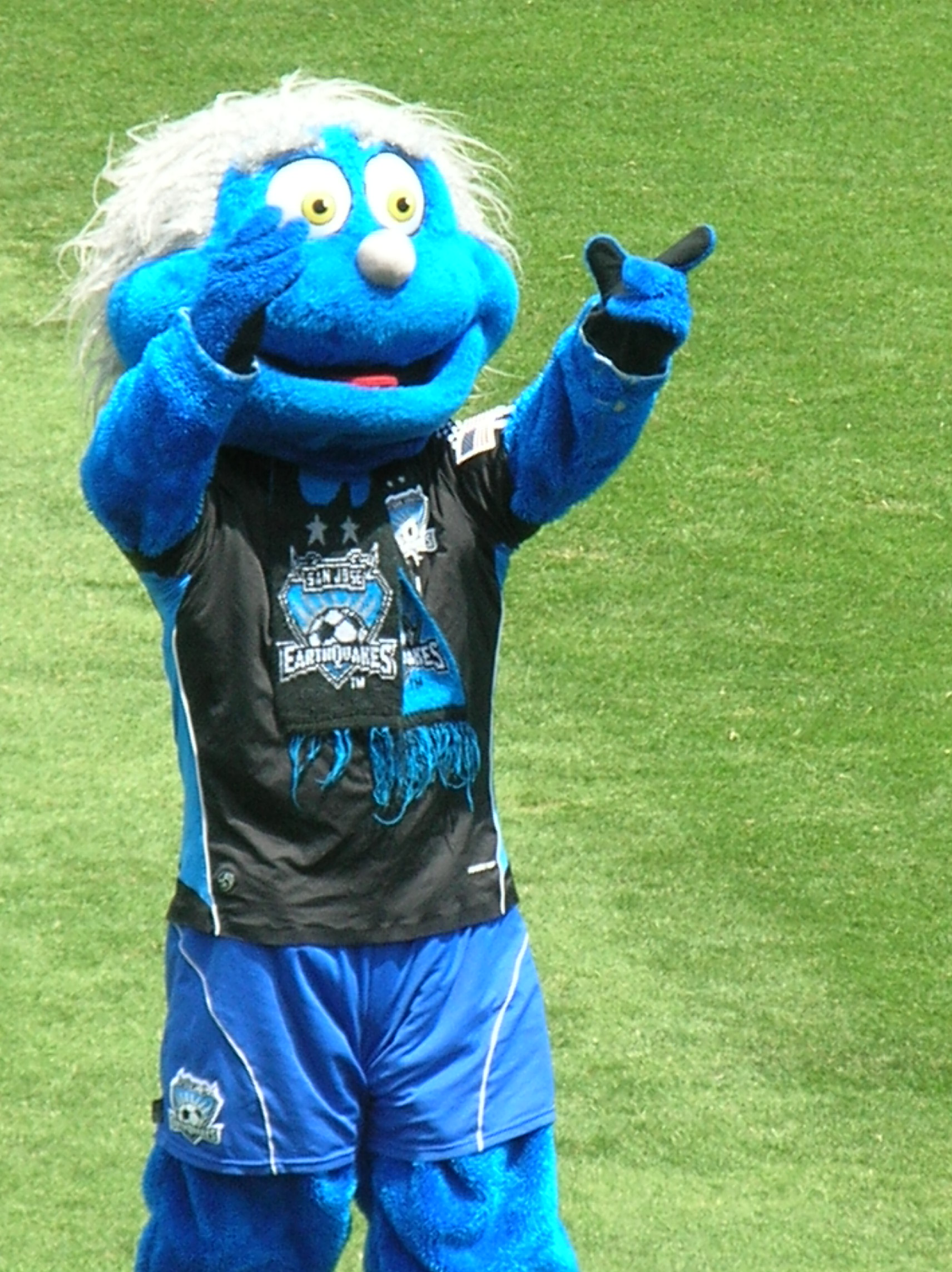 Q at an Earthquakes home game against the LA Galaxy. The Earthquakes won 1-0.